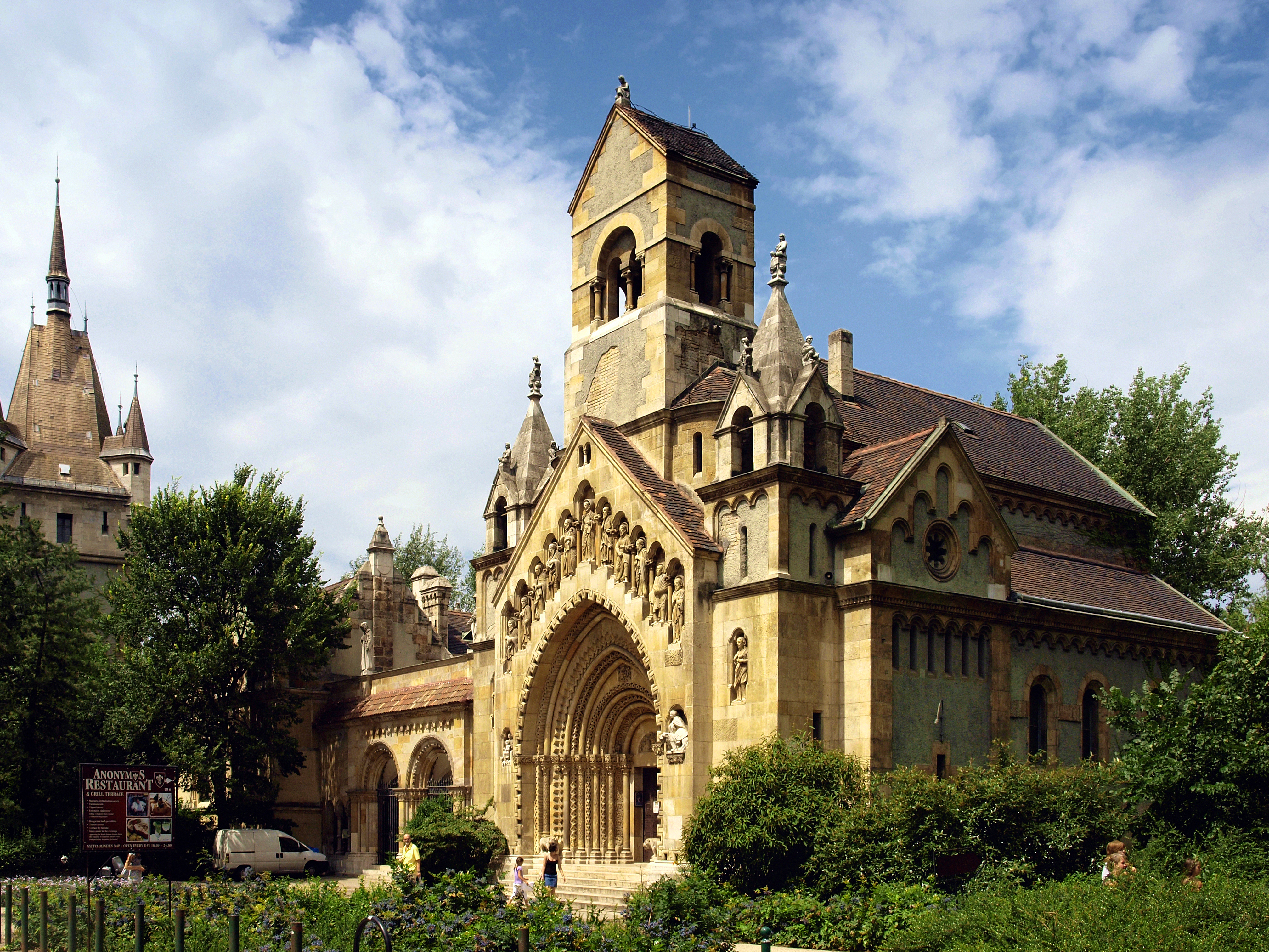 Budapest - Castel of Vajdahunyad (Vajdahunyad vára) - Chapel of Ják